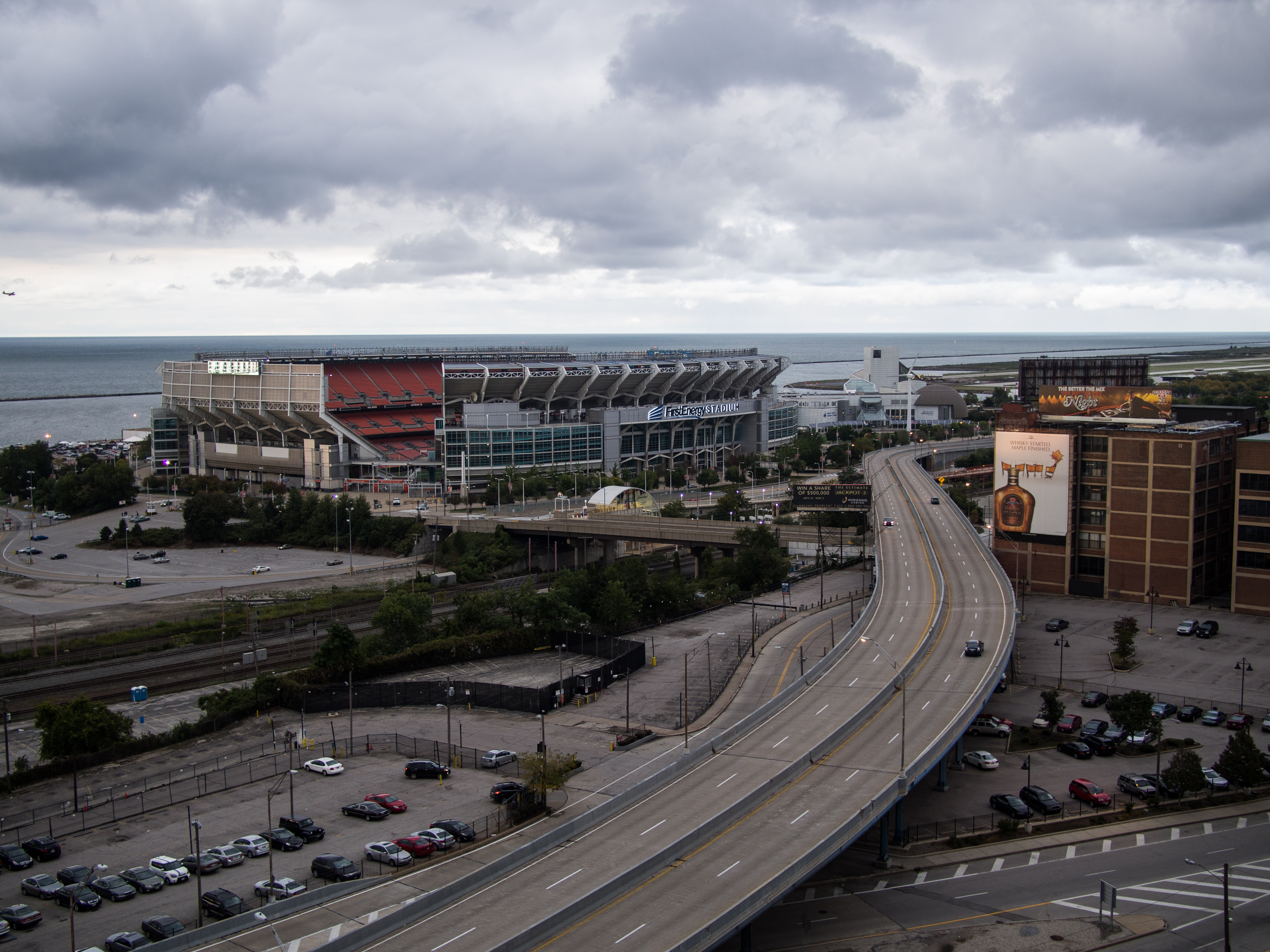 The Cleveland Memorial Shoreway winds between the Warehouse District and FirstEnergy Stadium near Lake Erie in downtown Cleveland.